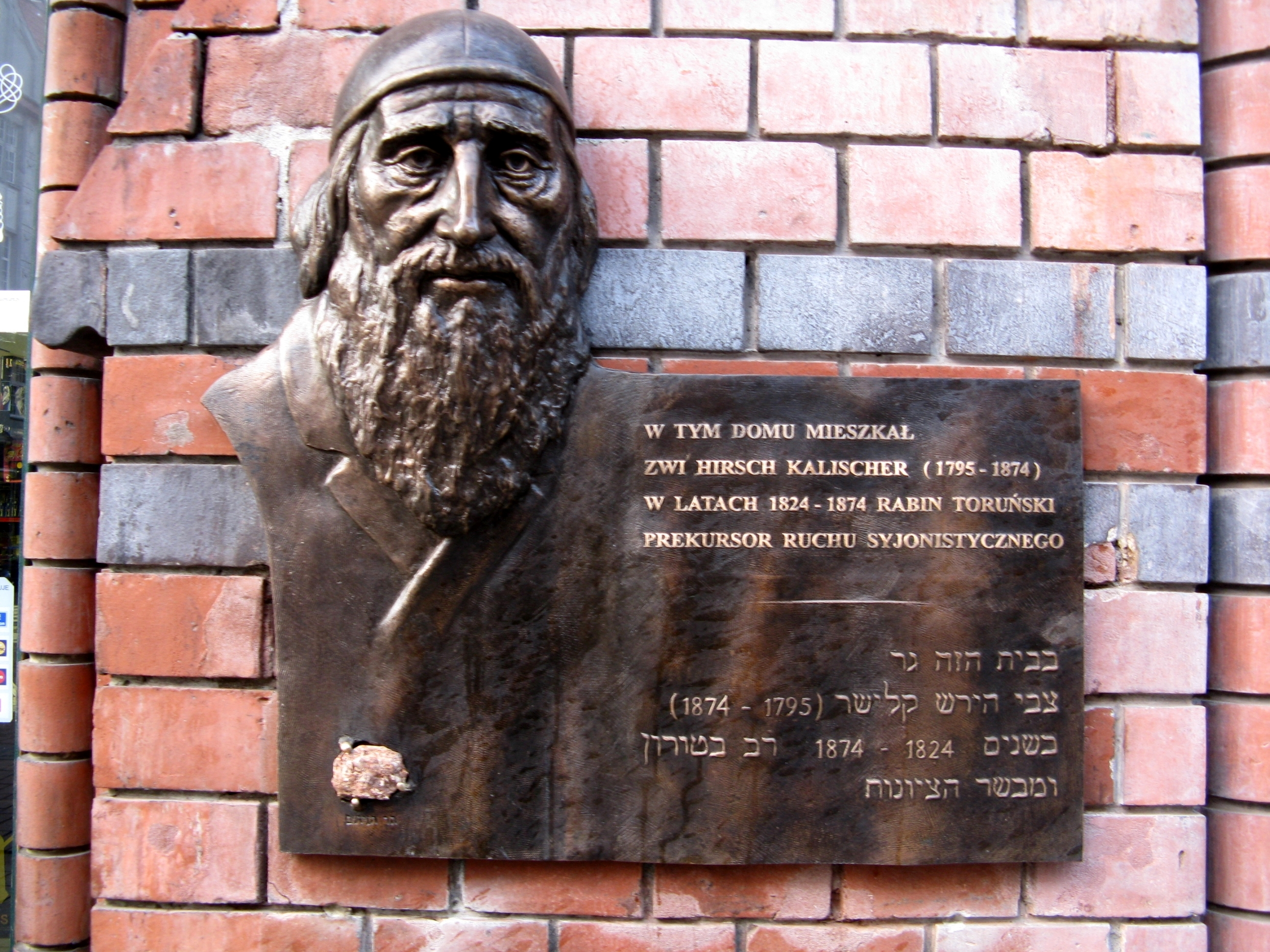 Plaque dedicated to reve Kalischer on building in Toruń Old Town, artist: Maciej Jagodzinski - Jagenmeer